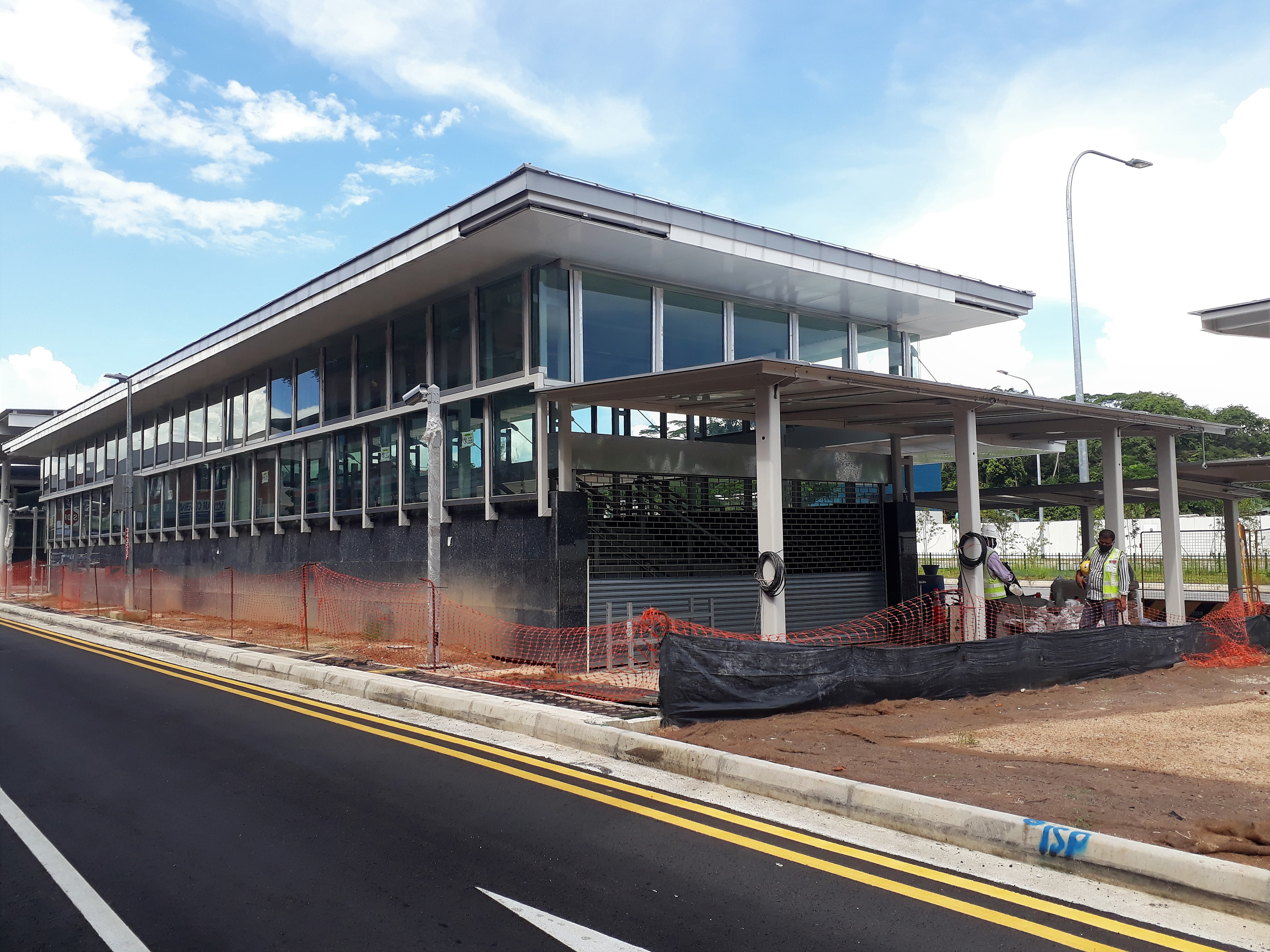 An entrance to Springleaf MRT station nearing completion